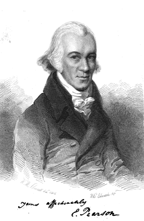 Portrait of Edward Pearson (1756–1811), English theologian and Master of Sidney Sussex College, Cambridge.